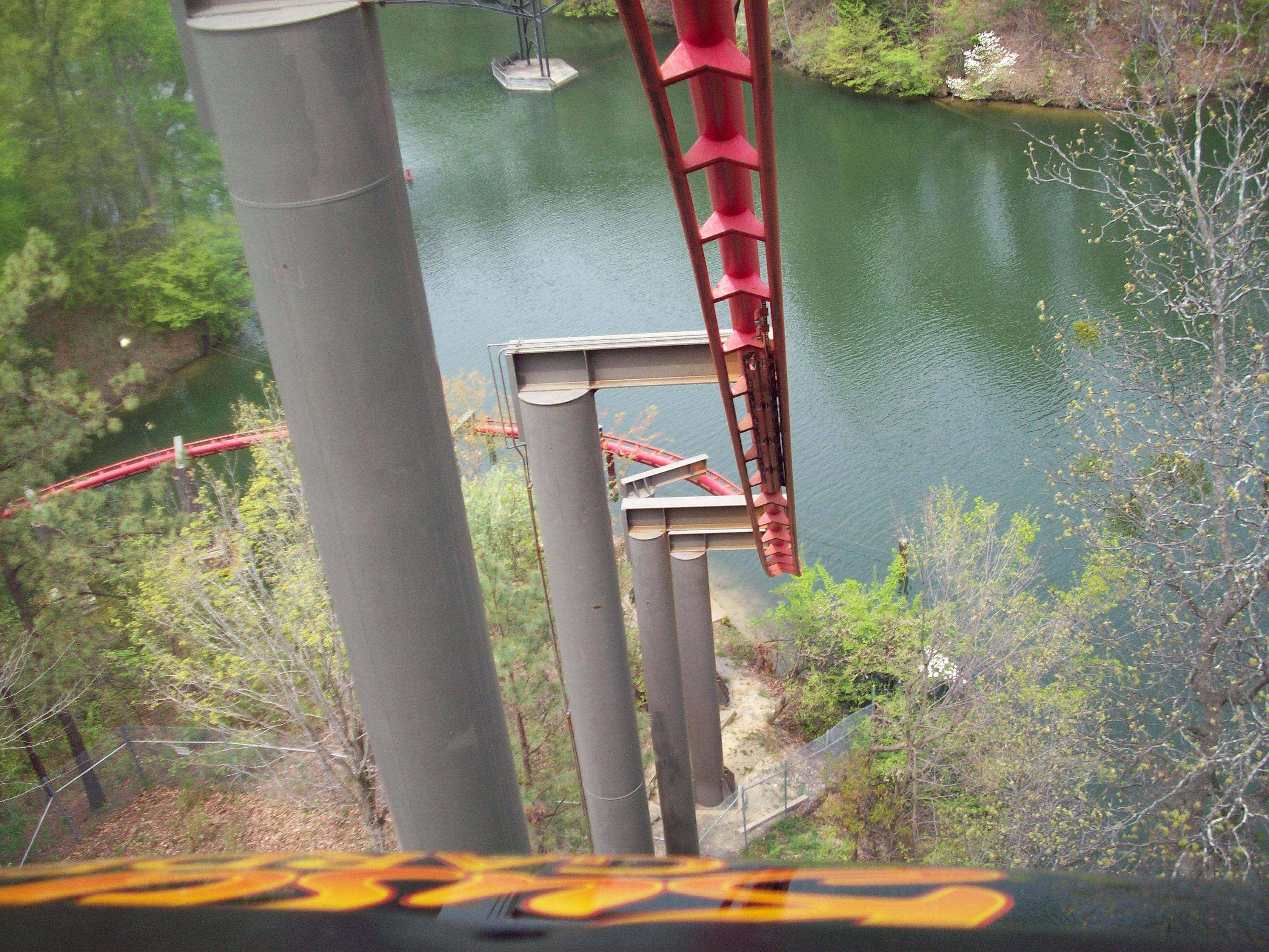 Big Bad Wolf 100' drop